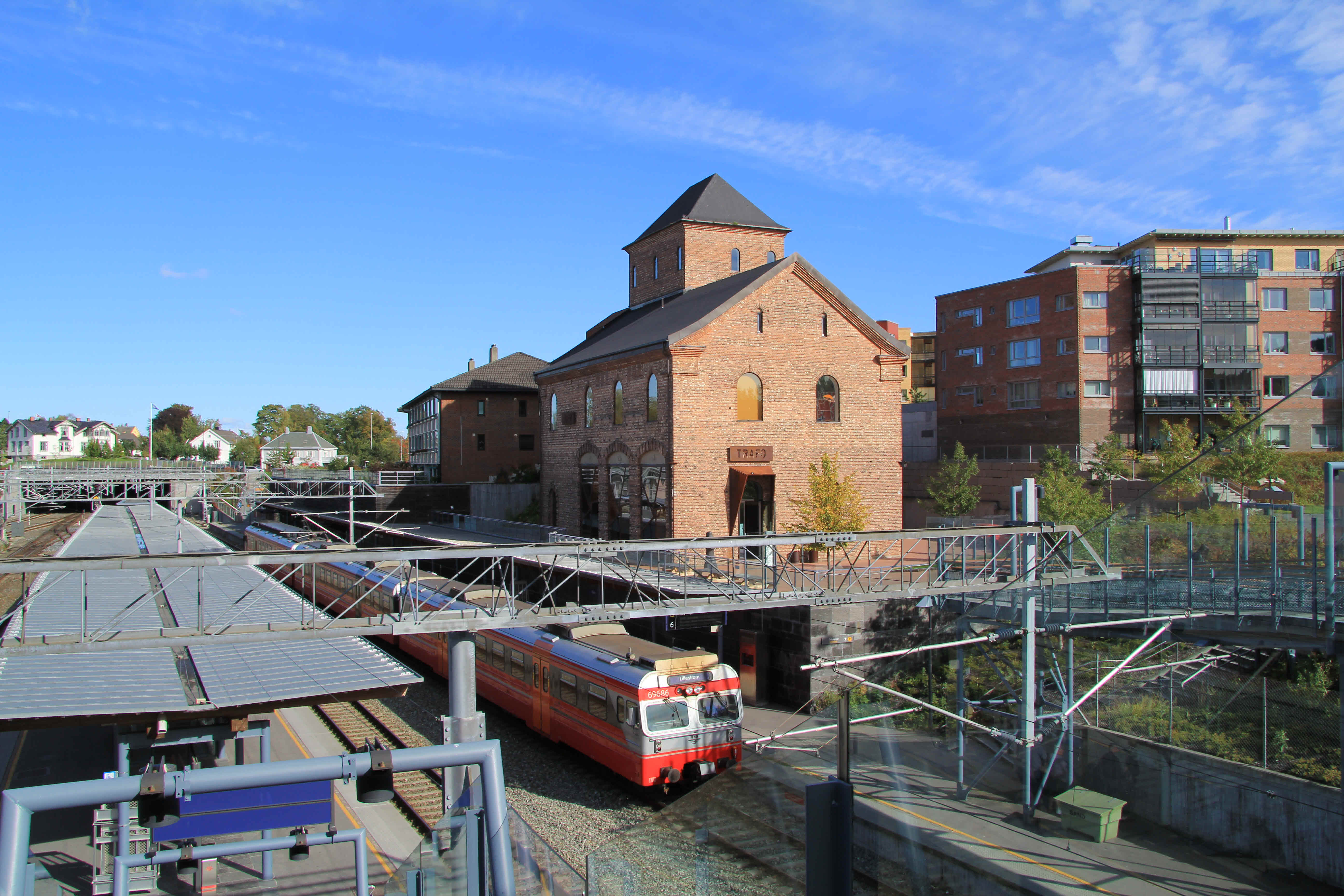 Gallery Trafo in the old Transformator building close by Asker Railwaystation, Asker, Norway